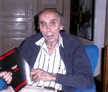 Åke Hodell